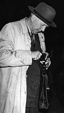 Minister for Finance of Sweden Ernst Wigforss looking for some money for a taxi efter a government dinner 1947. Picture taken by legendary press photographer Victor Malmström.